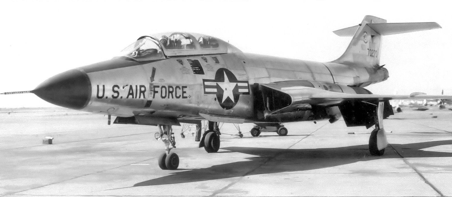 322d Fighter-Interceptor Squadron McDonnell F-101B-85-MC Voodoo 57-270 Kingsley Field, Oregon, 1959. nose noted Dec 2000 on dump at Coventry AP, England. This plane may have gone to Midland Air Museum, but since they already had 56-0312, they had no use for this one.